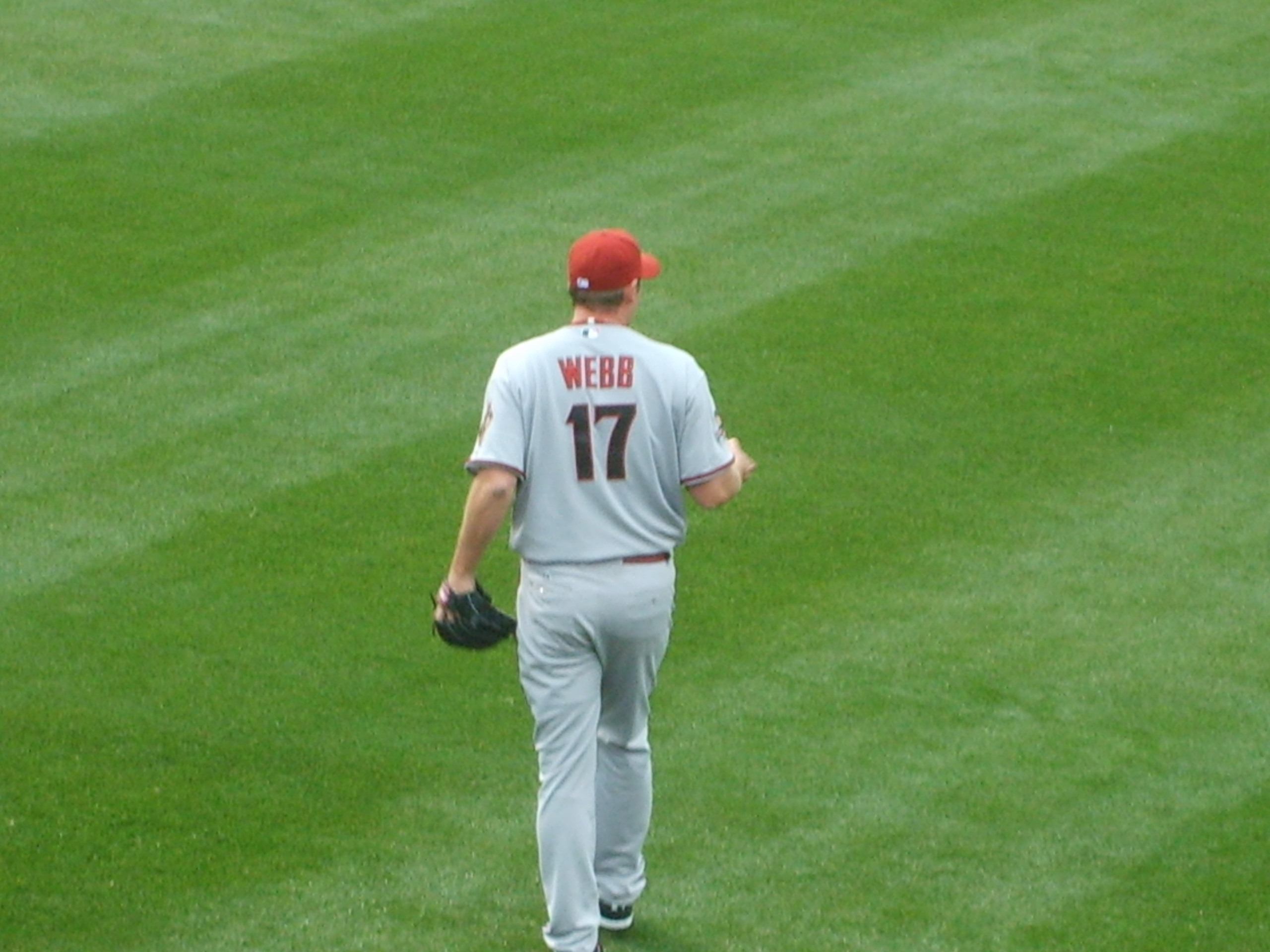 Photo was taken and owned by me. 3/31/08 in Cincinnati, Ohio at Great American Ballpark. 05:47, 3 April 2008 . . Mevins31 . . 2,560×1,920 (1.13 MB) move approved by Deadstar